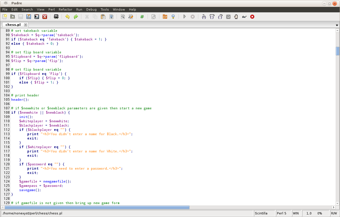 Screenshot of Padre (Perl Application Development and Refactoring Environment) 0.90